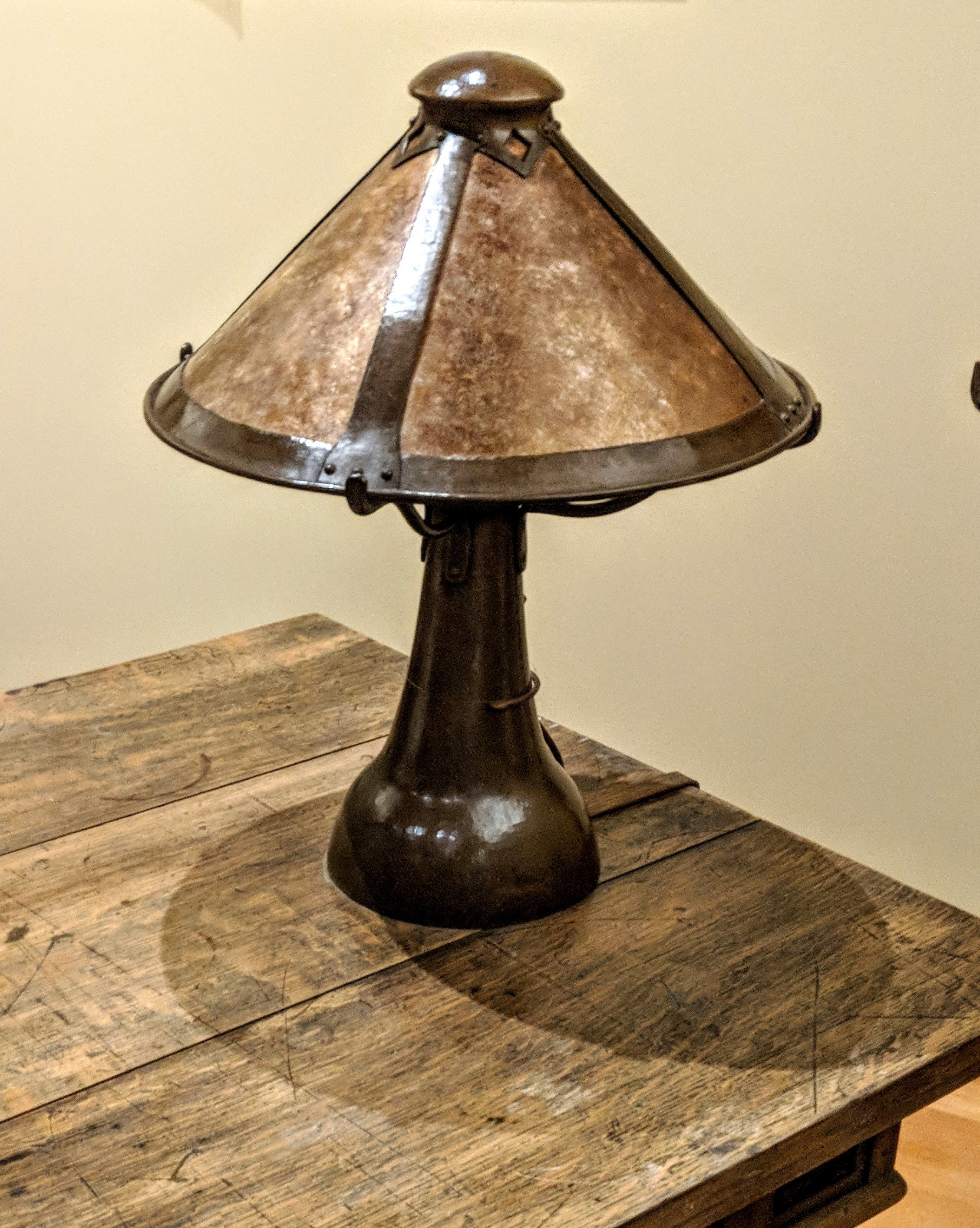 A hammered copper and mica lamp by Dirk van Erp, ca 1912, in the collection of the Oakland Museum of California.